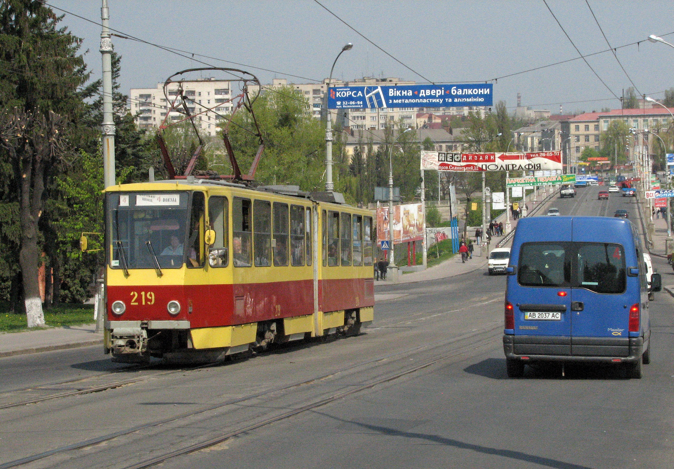 A tram on Soborna street in Vinnytsia, Ukraine.